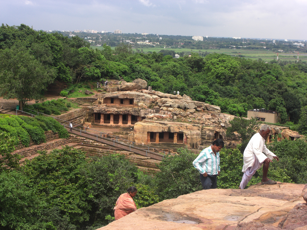 Looking onto the Udayagiri caves from Khandagiri, in Bhubaneswar, Orissa. These rock-cut caves were home to Jain monks and date back to the 2nd century BCE. More info on the caves and inscriptions here. Of particular interest is the Hathigumpha inscription. Behind the hill lies the runway of the Bhubaneswar Airport.